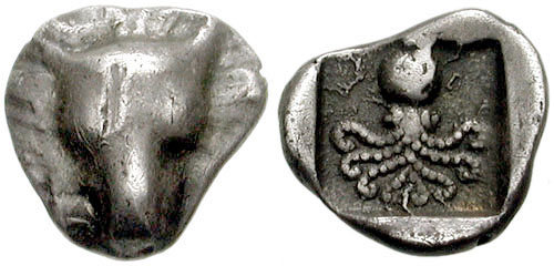 Eretria, 500-465 BC. Silver obol (8mm, 0.61 gm). Facing head of cow / Octopus in incuse square